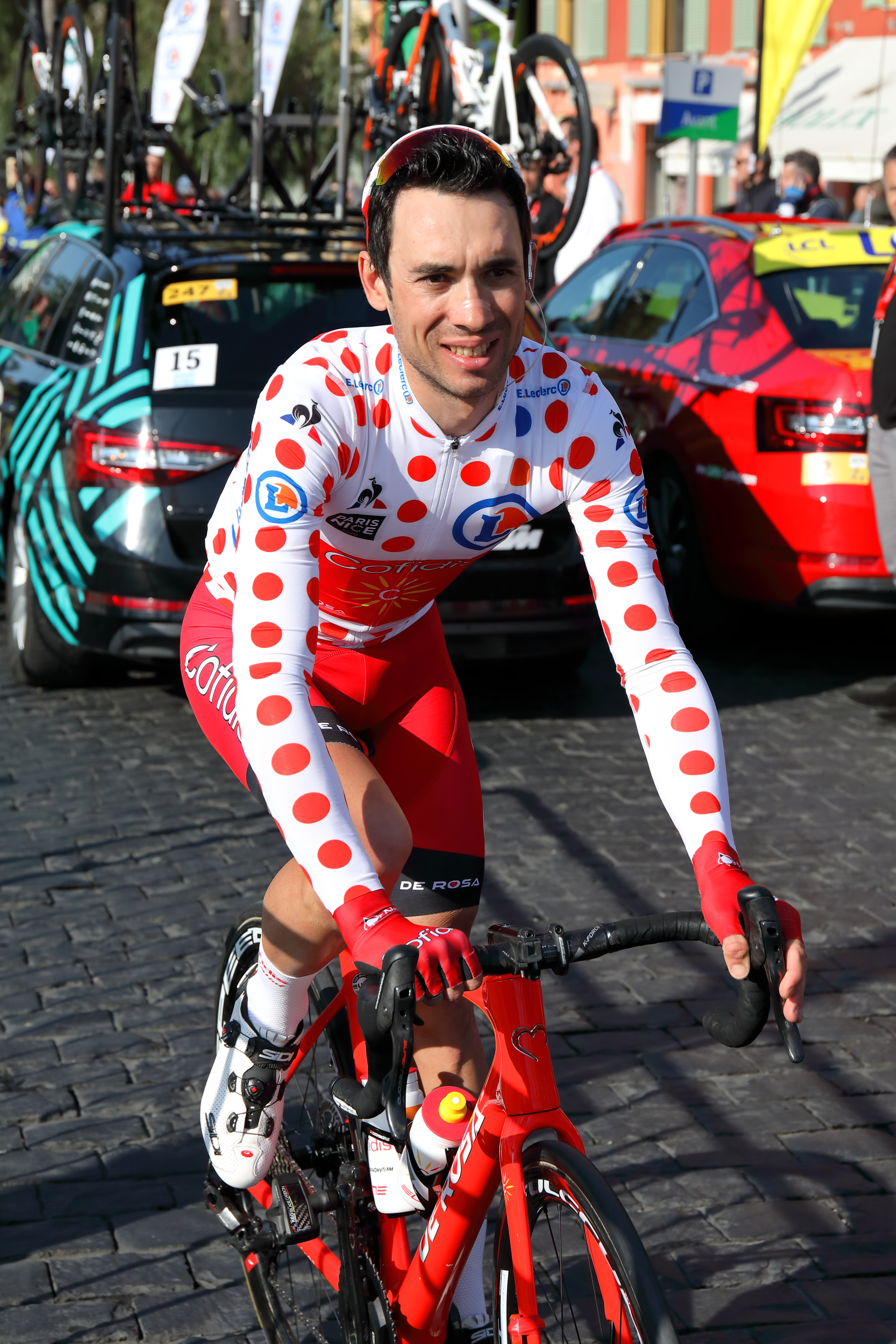 Nicolas Edet in Nice at the start of the 7th stage of the 2020 Paris-Nice